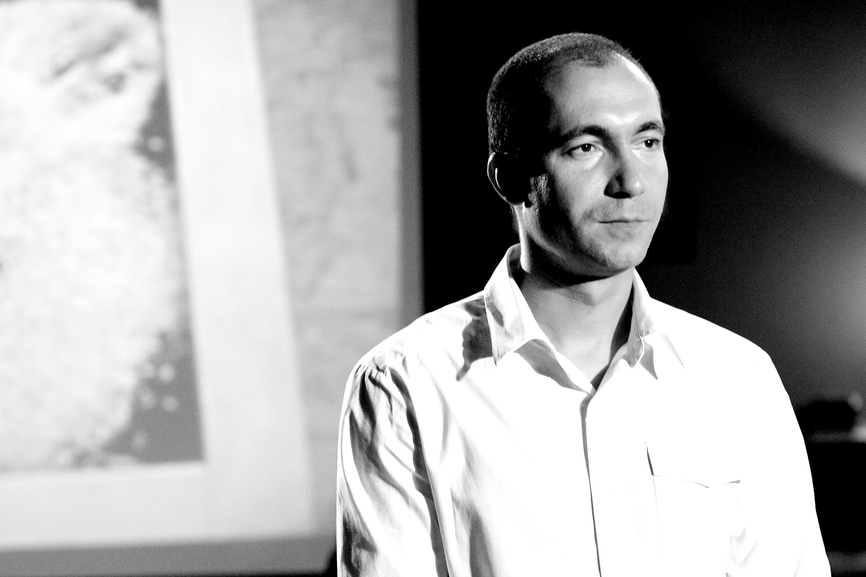 Bartłomiej Ostapczuk 09.08.2011r